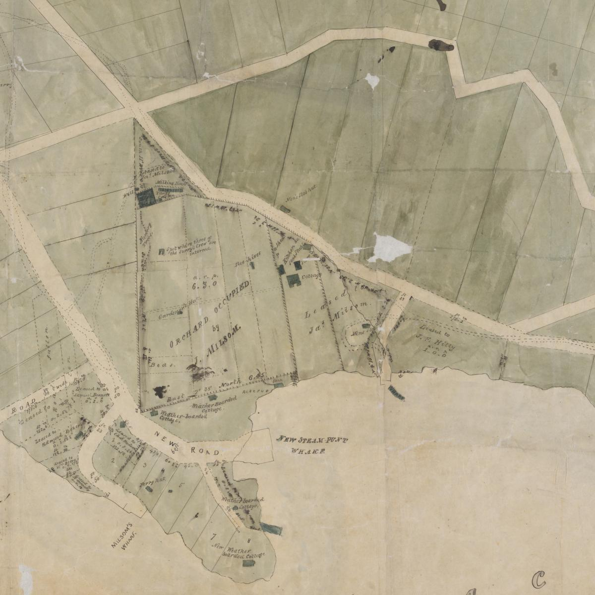 Earliest detailed map of the Jeffrey Street area in Kirribilli. Robert Campbells Estate, Milsons Point and Kirribilli, Sydney. Scale indeterminable. Map of peninsula at North Sydney showing leases, roads, weather board cottages, jetties, wells, orchards, bee hives, milking bails and stables and the graves of the three typhoid victims and the attending physician from the Surry. inset. Amicus Number: 8560781.